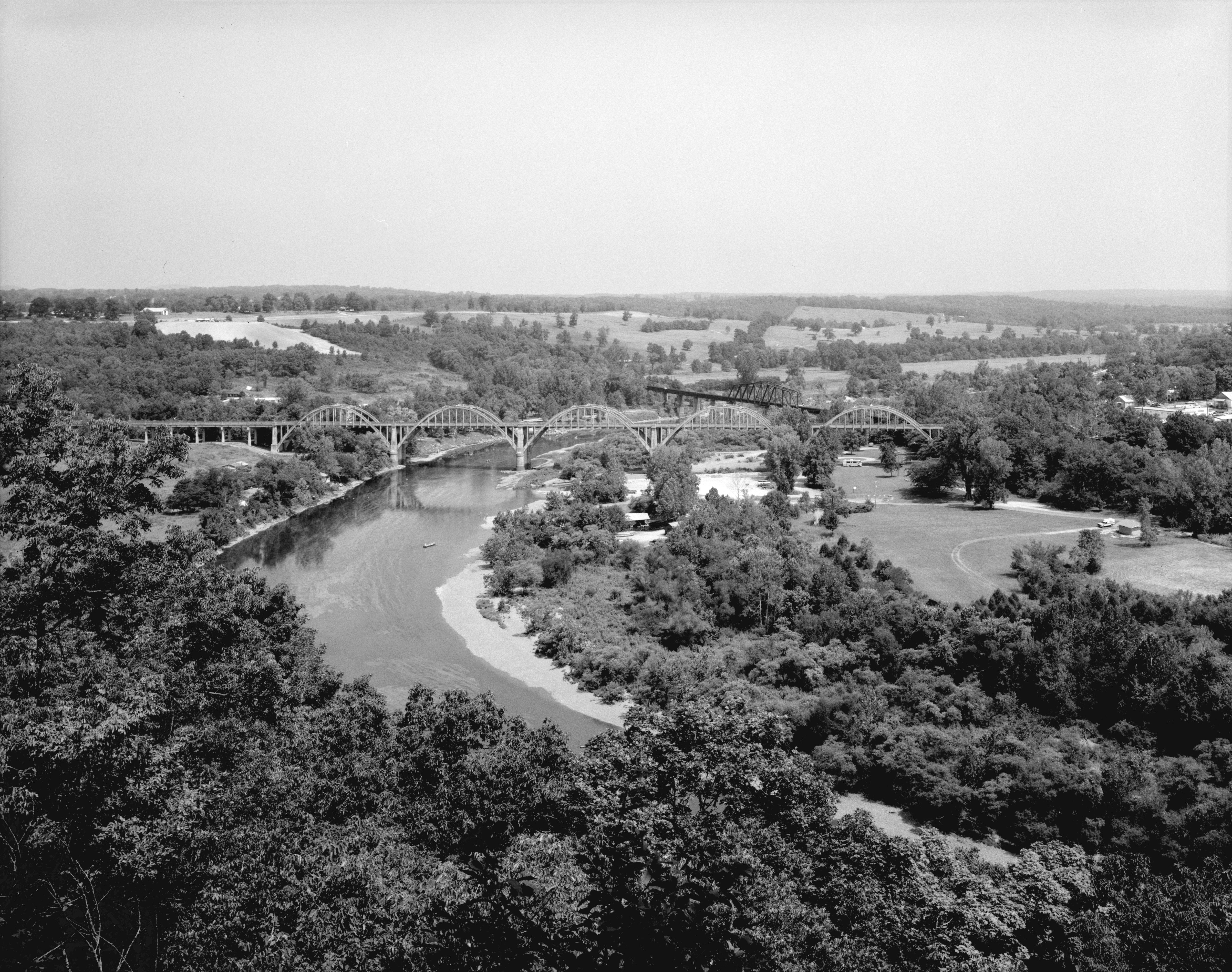 Cotter Bridge, Spanning White River at U.S. Highway 62, Cotter, Baxter County, AR. General view of bridge looking northeast. The Cotter Bridge is the only bridge in Arkansas known to be designed and engineered by the Marsh Engineering Company, a significant twentieth-century bridge-building company. Among the largest they ever designed, it is also an excellent example of the company's patented Marsh Rainbow Arch. A unique feature of the bridge is that it was constructed by means of a cableway, suspended across the river, over which all materials were transported to various parts of the structure. The Cotter Bridge was instrumental in making accessible a new region of the Ozarks, an important recreational area in the United States. It became Arkansas' first National Civil Engineering Landmark in 1986.